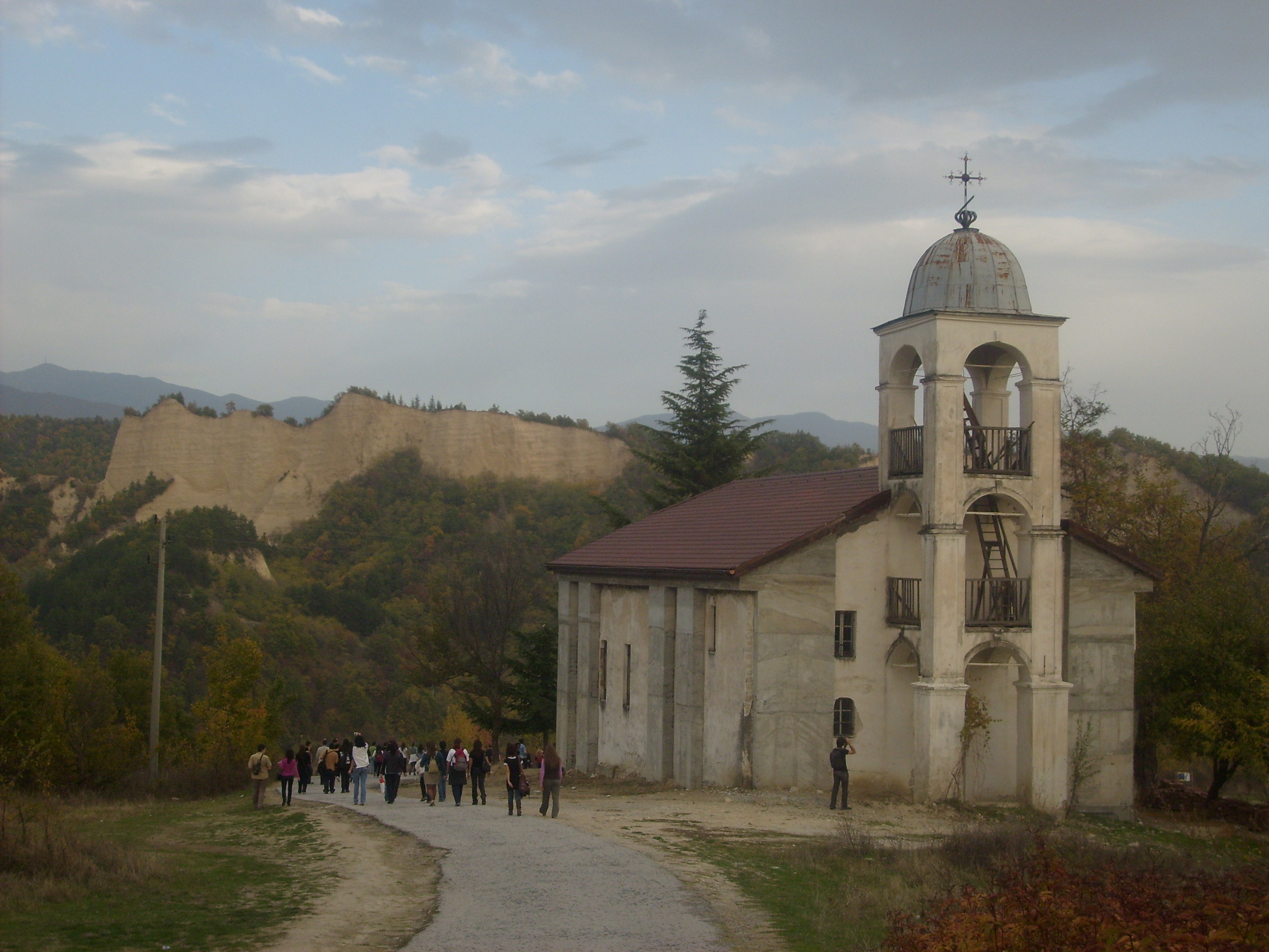 Rozhen Monastery